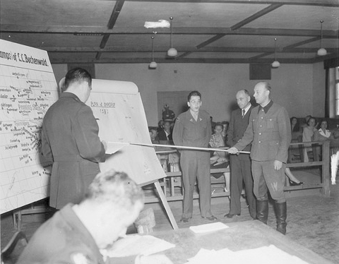 Werner Greunuss (in the right) during the Buchenwald Camp Trial (part of the Dachau Trials)in front of a charge of subcamp Ohrdruf. He was SS-Untersturmführer and Nazi physician in the concentration Camp of Buchenwald. Other People LTR: Robert Kunzig, Herbert Rosenstock und Dr. Aheimer